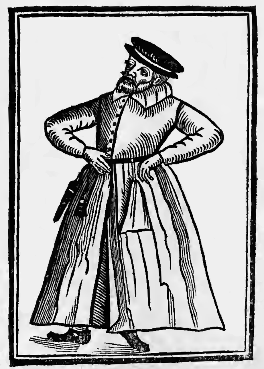 Robert Armin probably in the role of Tutch (The History of the Two Maids of More-clacke)